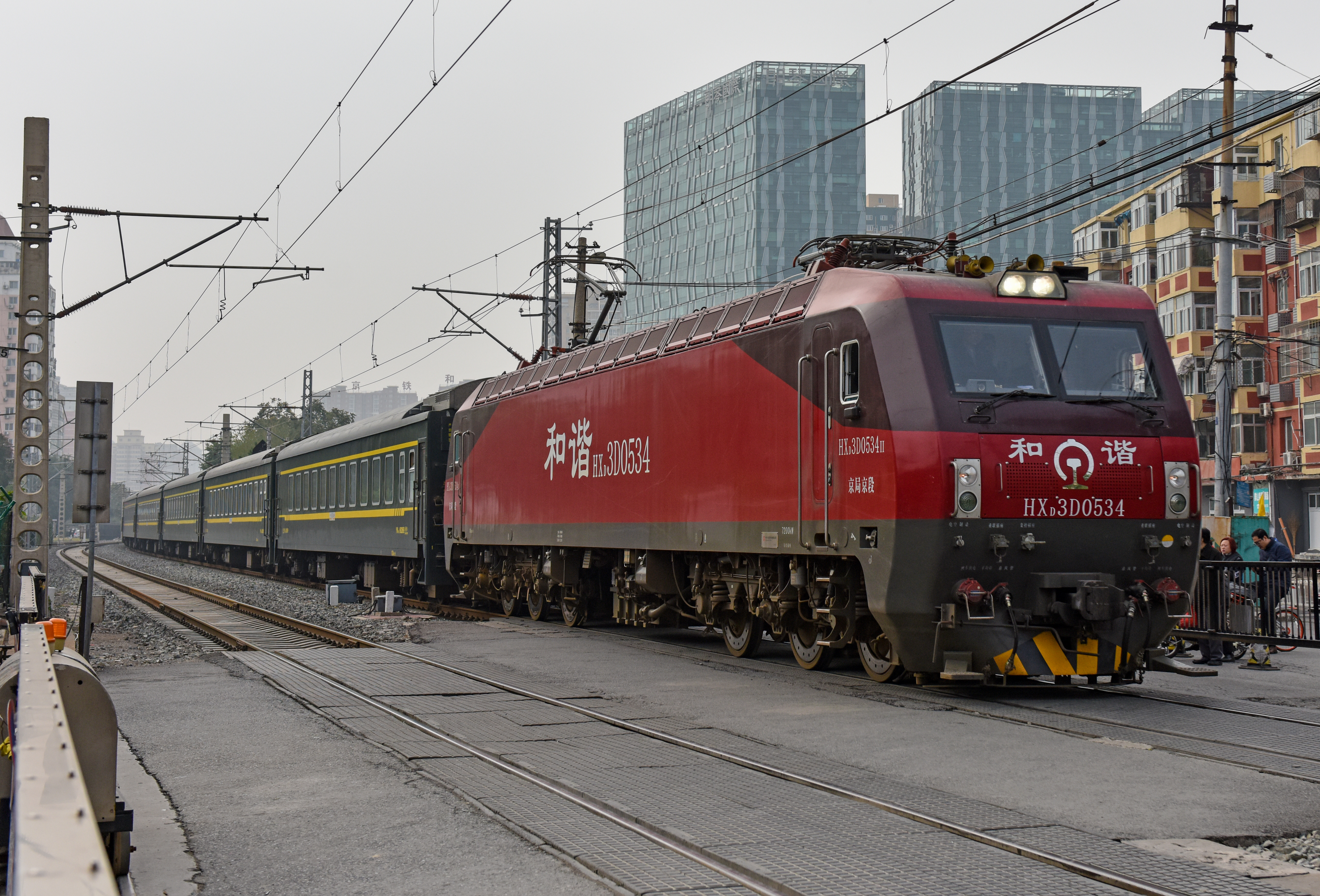 K148 from Fuyang... wait a minute, it has been delayed.